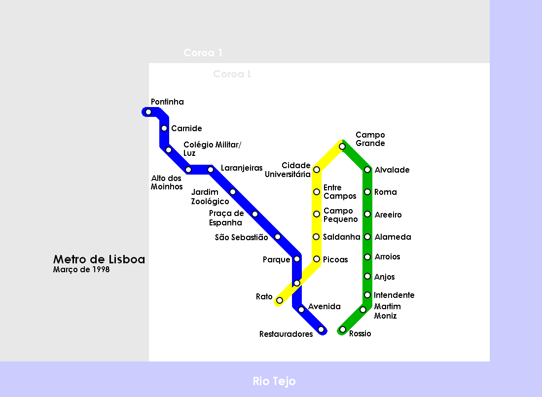 Map of Lisbon Metro in March 1998